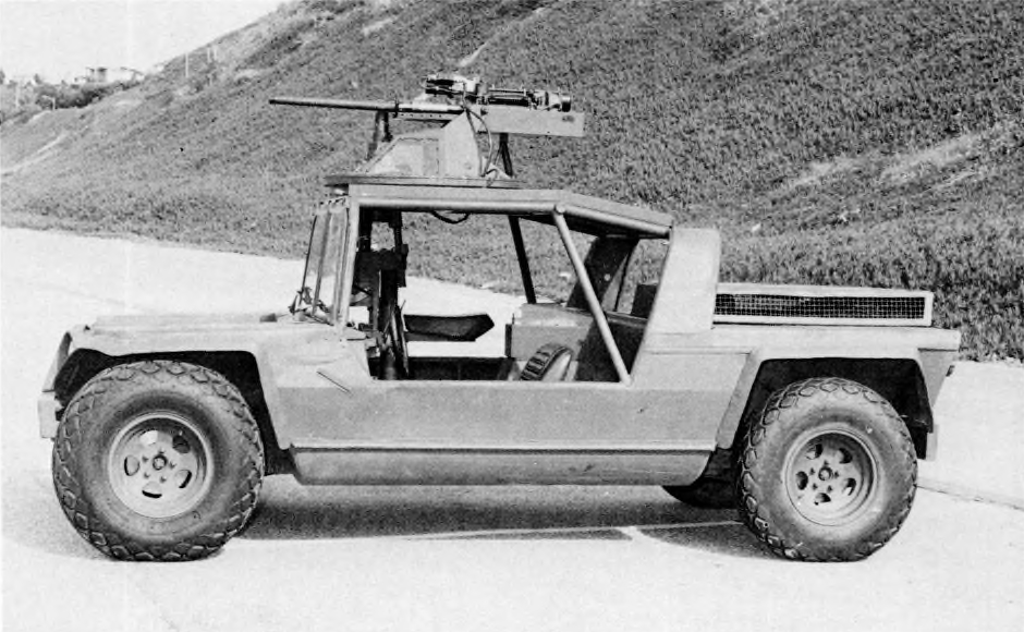 XR311, a light-weight, low-silhouette, four-wheel drive vehicle with high cross-country mobility, mounting a 30mm chain gun, XM230E1, under development for use on the YAH-64 advanced attack helicopter